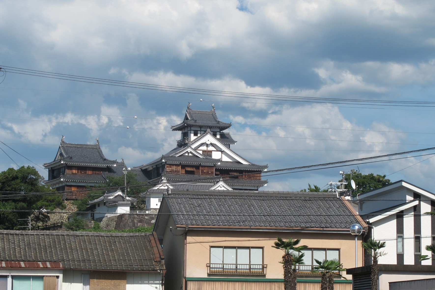 Fukuchiyama castle